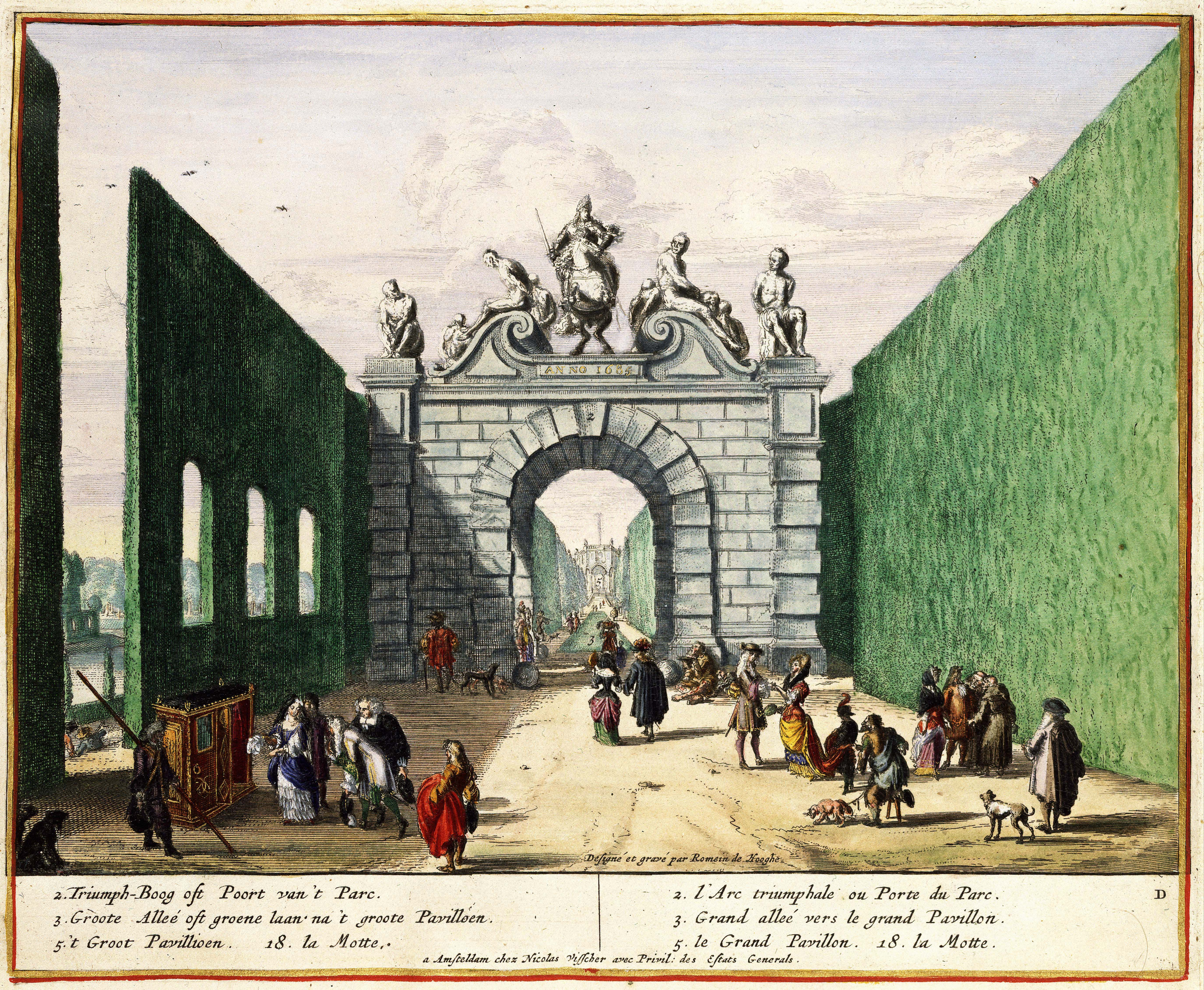 The print shows the complex of pleasure gardens of Enghien near Brussels. The plan is part of a series of prints commissioned by Nicolaes Visscher II (1649-1702) and engraved by Romeyn de Hooghe (1645-1708). The print shows the main entrance to the parc, a triumphal arch. Via this gate visitors entered the groote allee oft groene laan, the lane that led to the pavilion in the center of the parc.